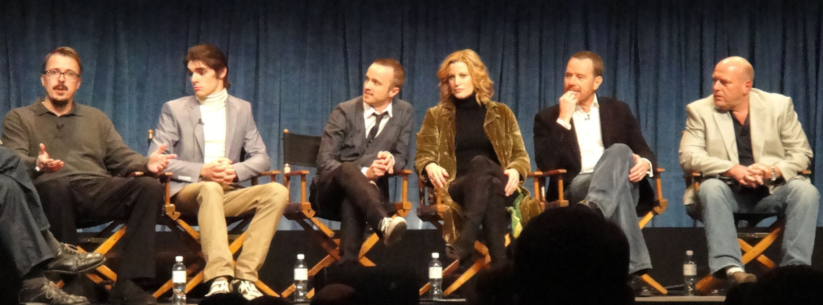 PaleyFest 2010 - Breaking Bad - creator Vince Gilligan, RJ Mitte (Walt Jr), Aaron Paul (Jesse Pinkman), Anna Gunn (Skyler White), Bryan Cranston (Walter White), Dean Norris (Hank)